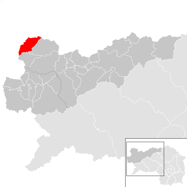 District Leoben